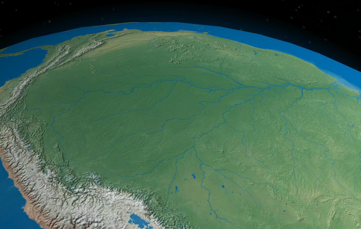 Digital rendering of the satellite view of Amazon River. This image has been rendered in the Globe Master geography game, available for Android devices on the Google Play Store. For the globe texture, Whole world - land and oceans composite image was used, created by NASA/Goddard Space Flight Center (public domain).